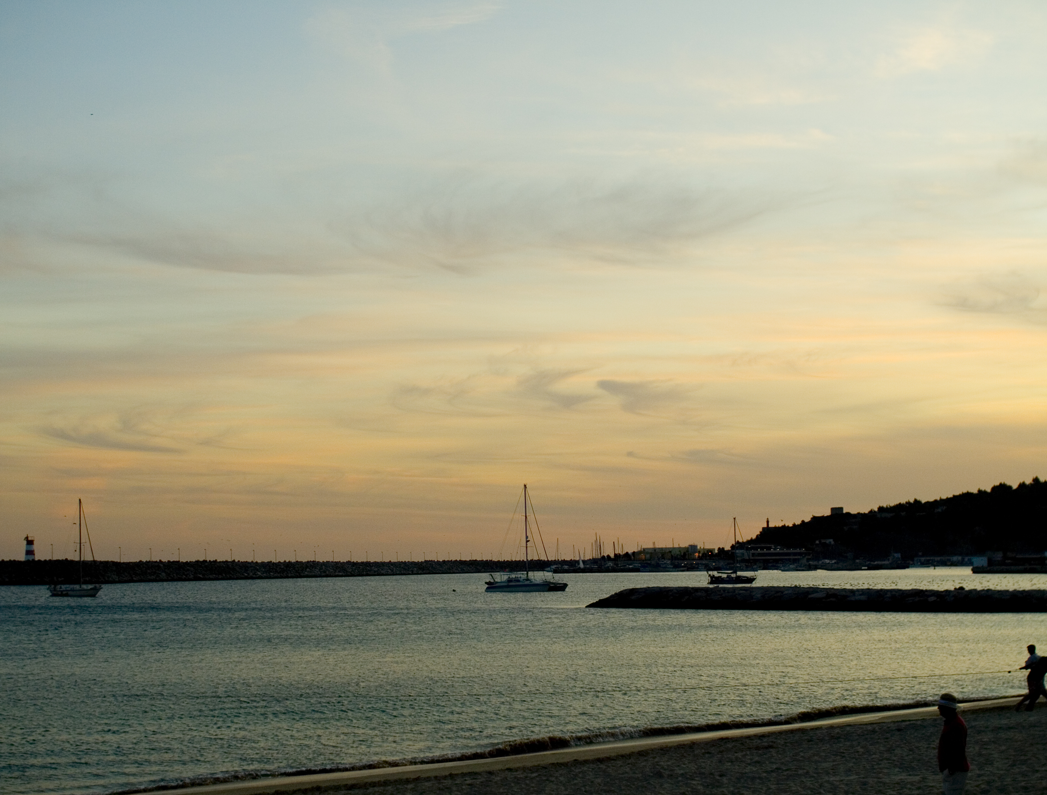 Sunset in Sesimbra, Portugal.